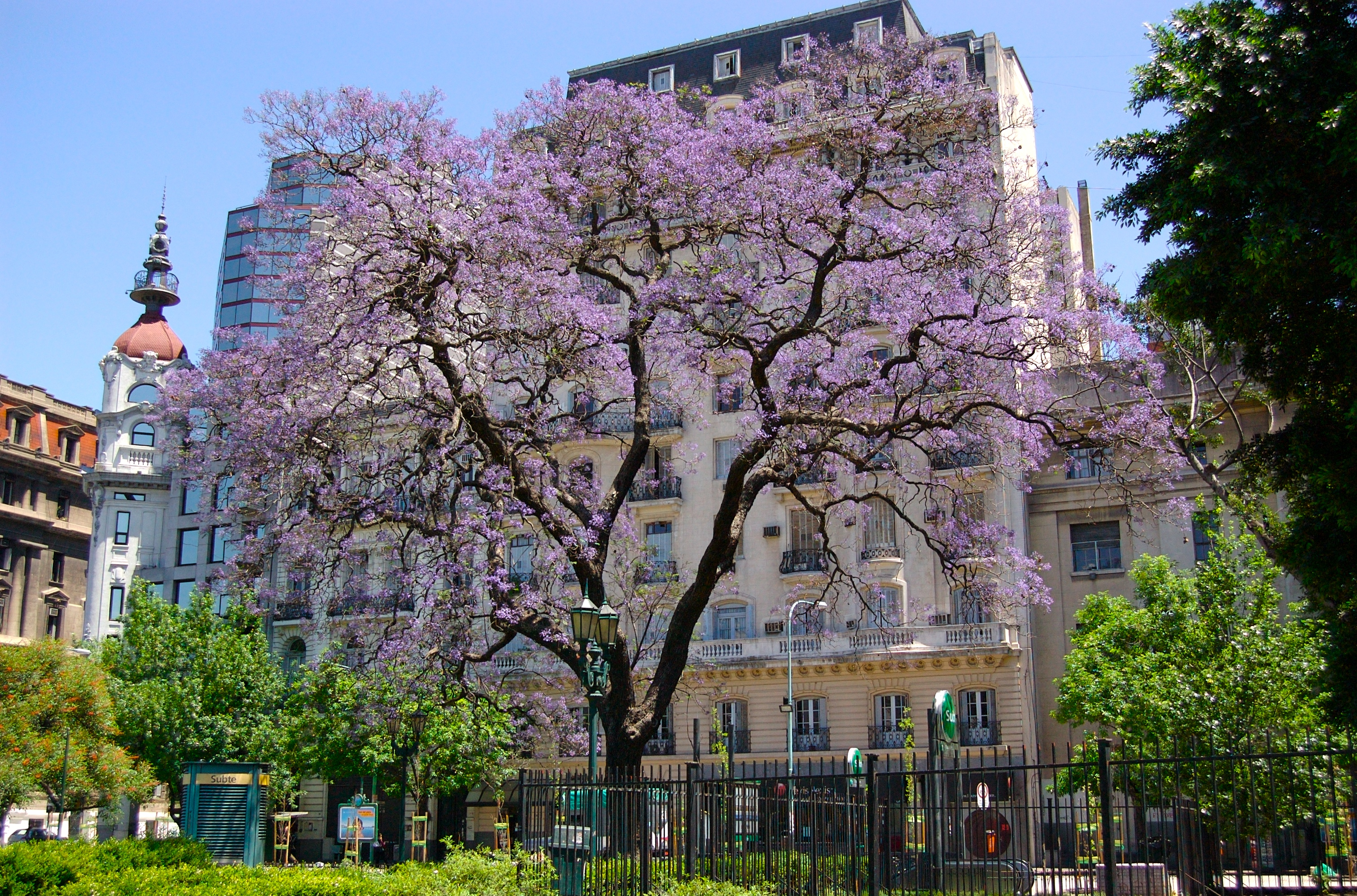 Jacarandas in bloom in the Buenos Aires judicial district. The Talcahuano Building, designed by Italian architect Amilcare Durelli and completed in 1920, is in the middle behind the foliage.